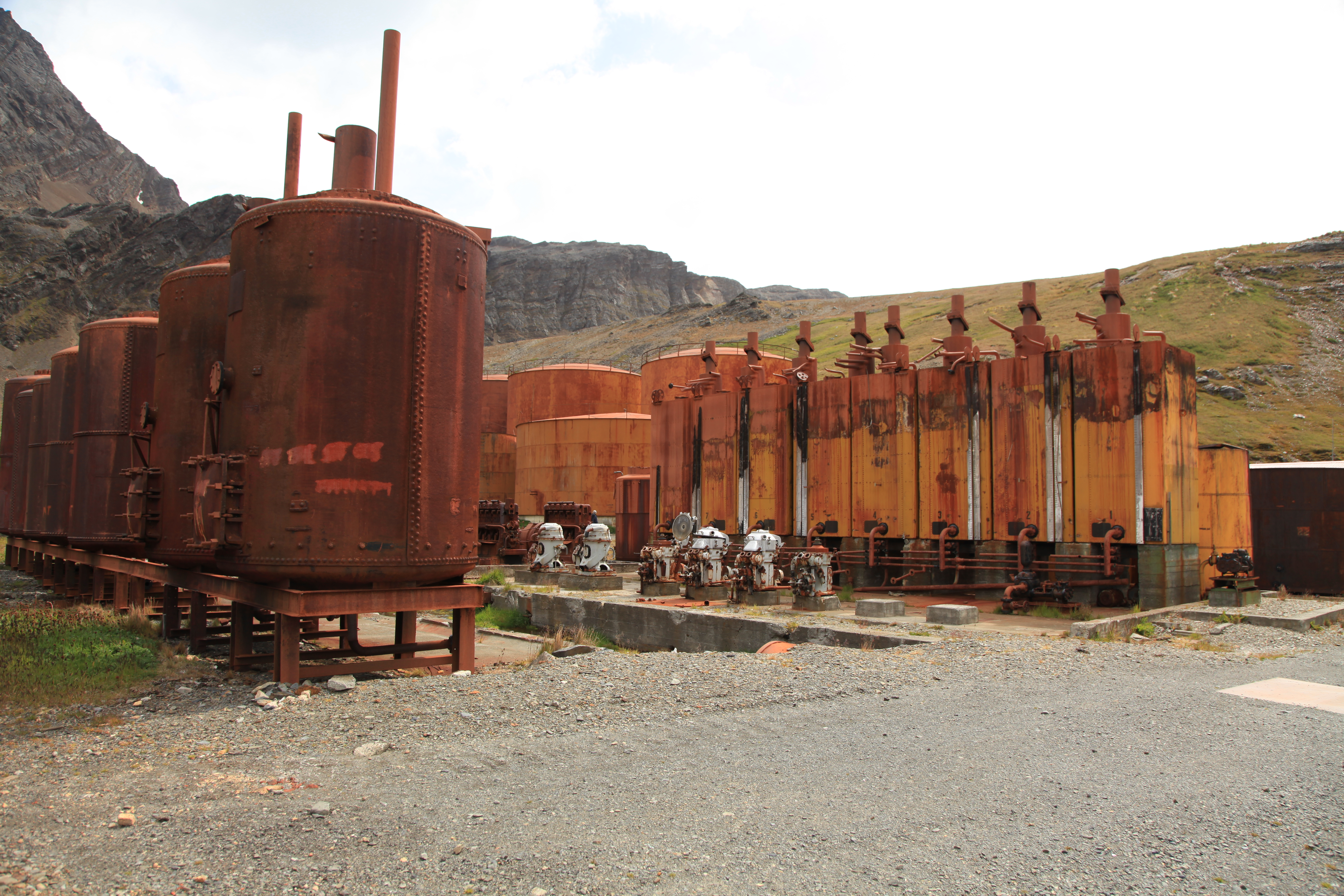 At the Grytviken Whaling Station in South Georgia.